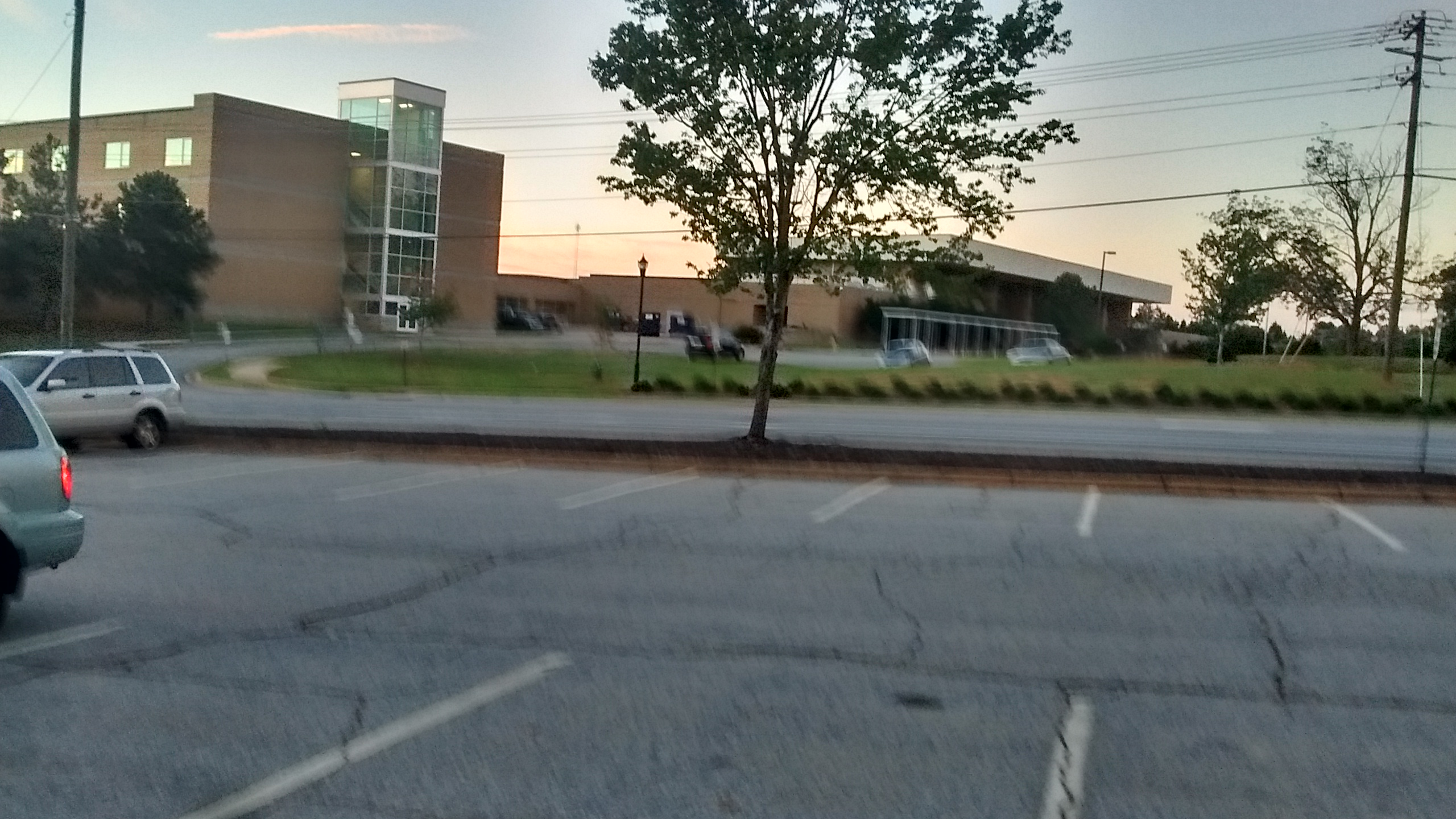 A sideview of Mauldin High School from the Mauldin Senior Center.